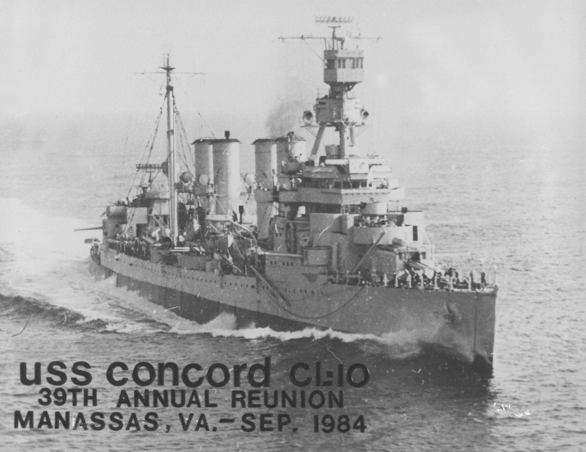 Photos of the USS Concord given out to former crew members at the 39th annual reunion, 1984.